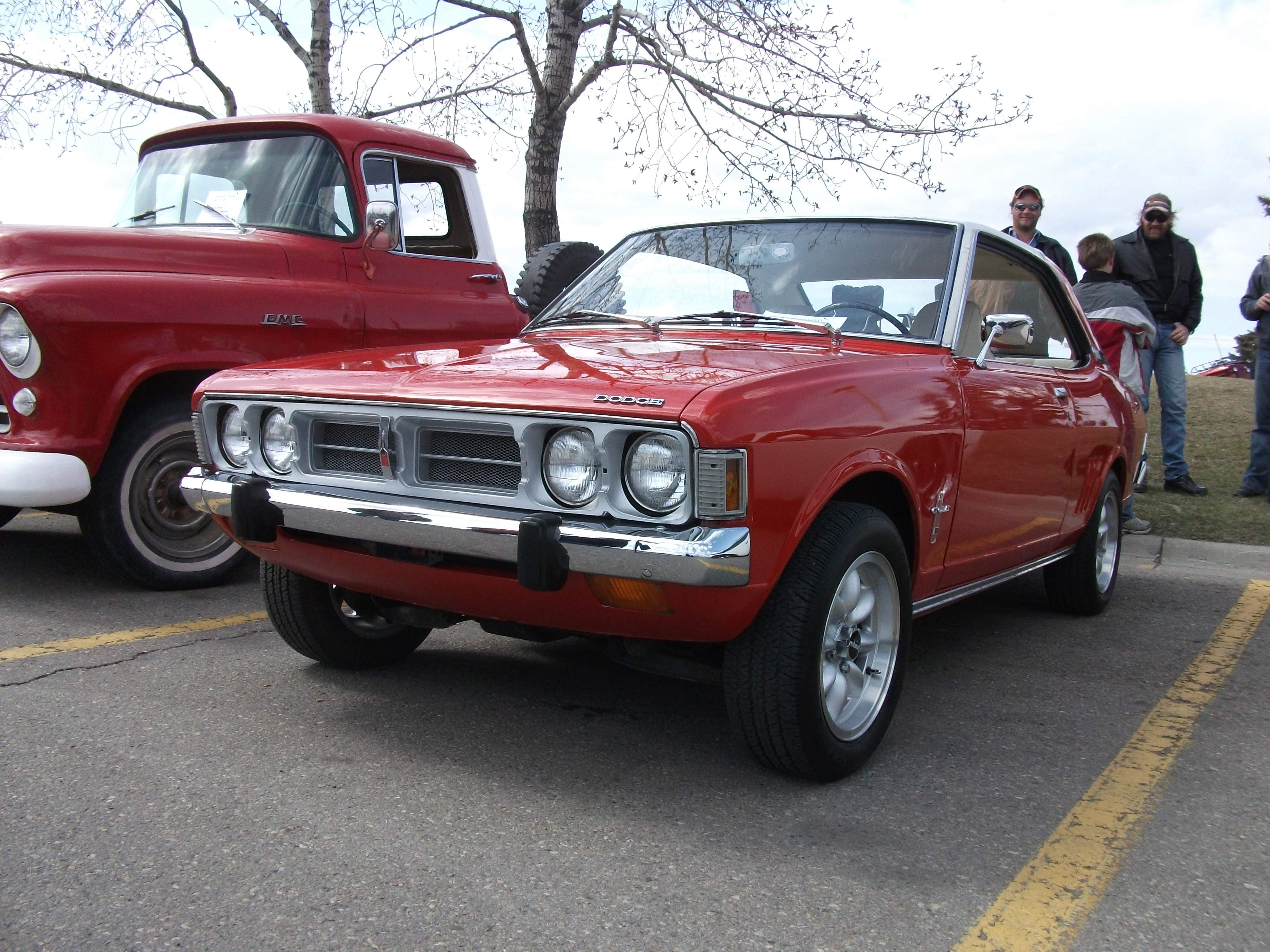 Rare sight this 1973 Dodge Colt. Low mileage car from BC. Four speed manual too. Panasport wheels.